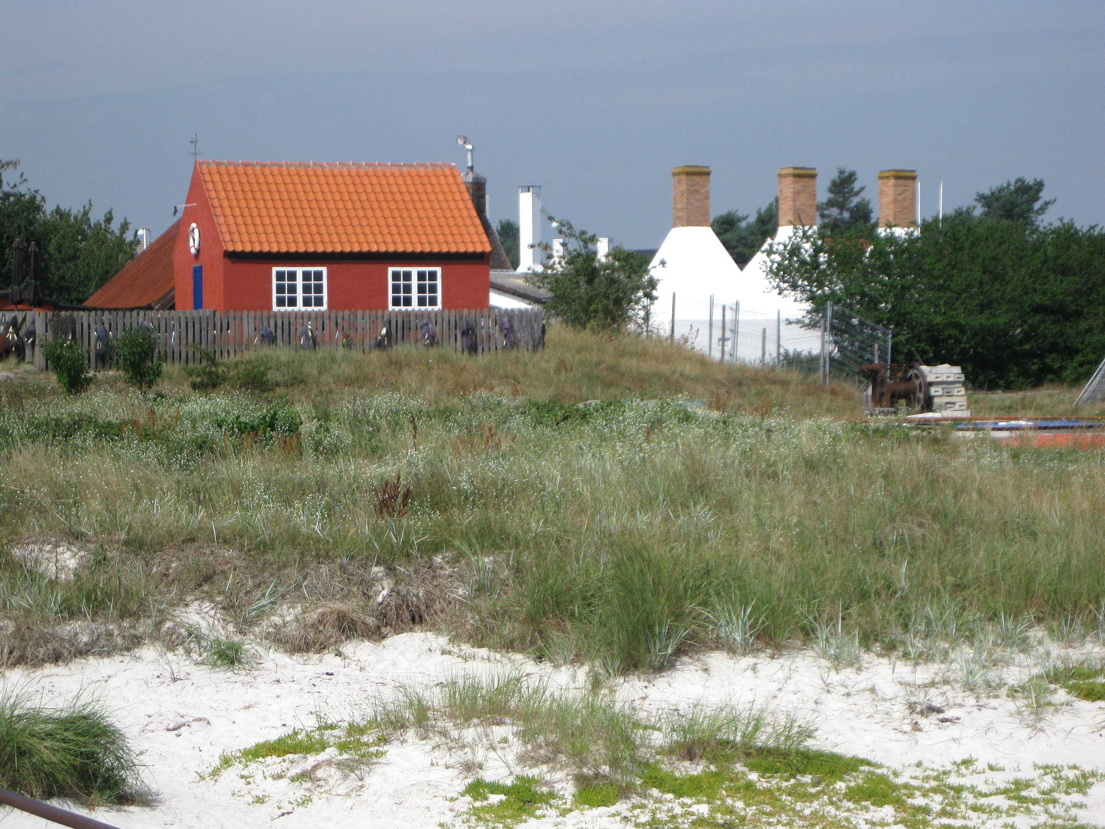 View at the fishing village "Snogebæk", located on the island Bornholm in east Denmark.